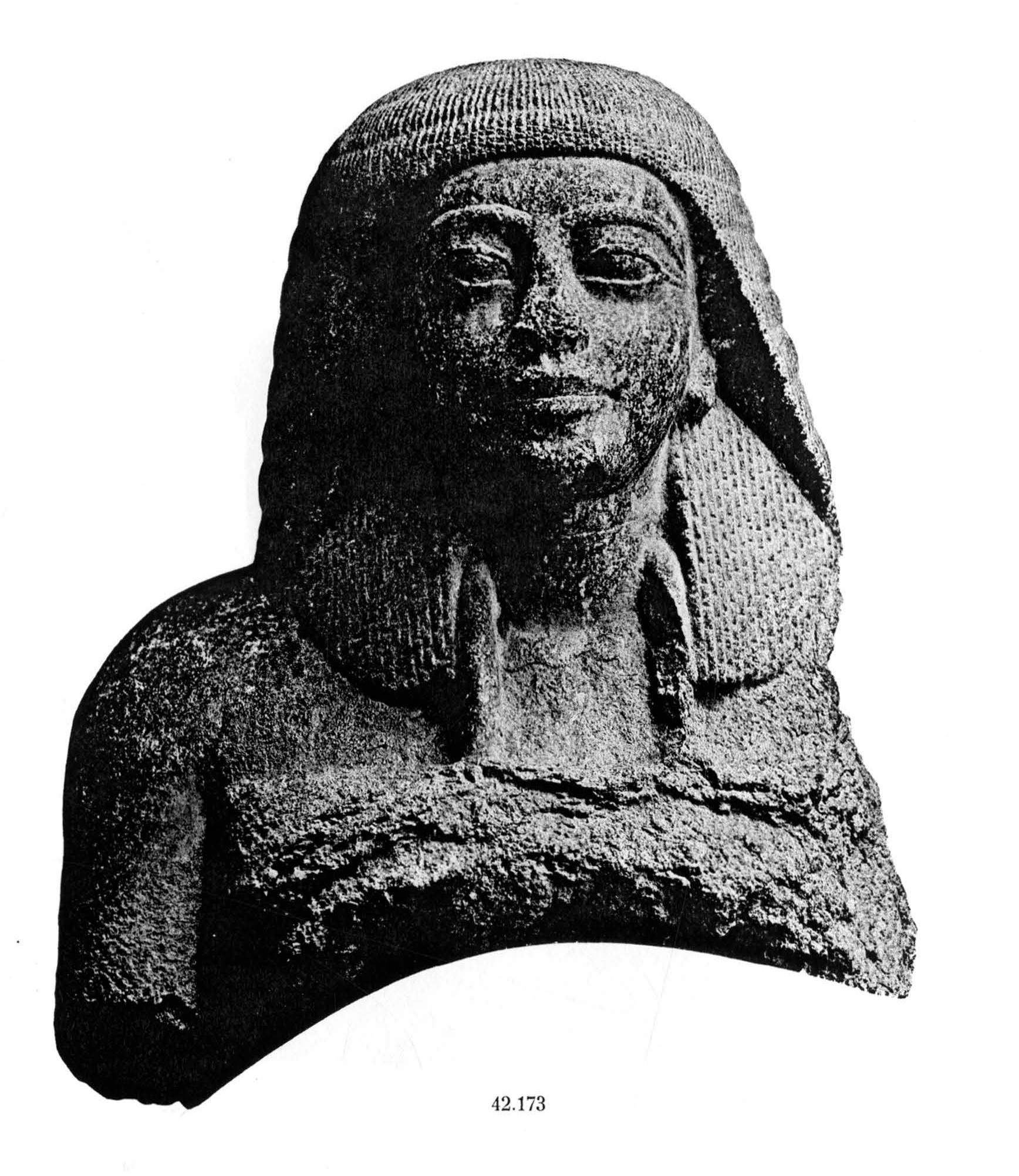 Statue fragment of the vizier and High Priest of Ptah, Khaemwaset, who served under Ramesses IX. Found at Karnak in the great temple cachette. Reign of Ramesses IX, 20th dynasty, New Kingdom. Cairo, Egyptian Museum CG 42173 (JE 36650).